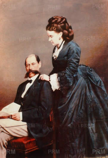 Narciso Campero (1813–1896), President of Bolivia, 1880–1884, with his wife, Lindaura Anzoategui Campero de Campero